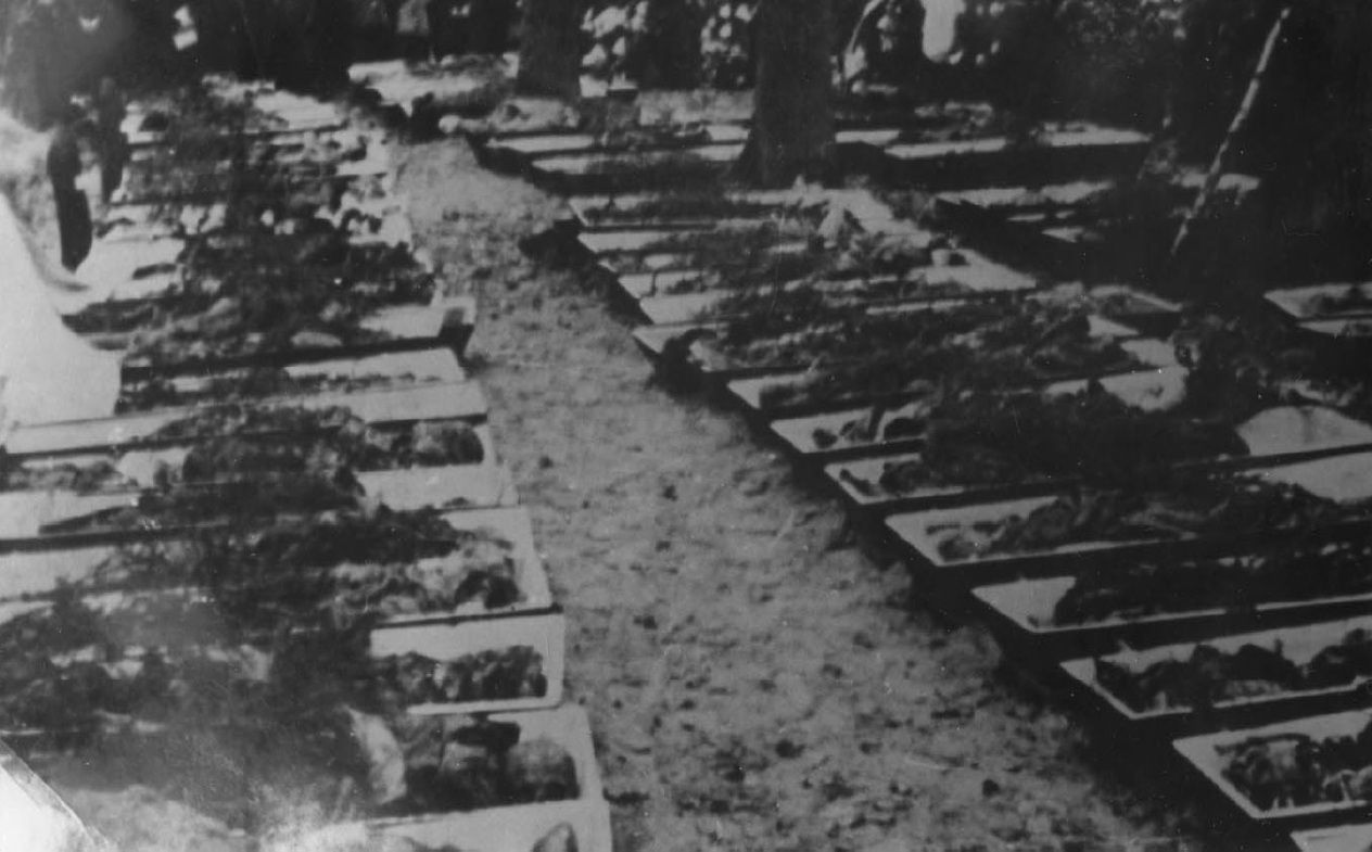 Remnants of the Poles murdered by Nazi-German occupants in Barbarka forest near Toruń. In autumn 1939 approximately 600 Poles were executed in this place by the members of paramilitary Volksdeutscher Selbstschutz. This photo was taken during the exhumation in October 1946.